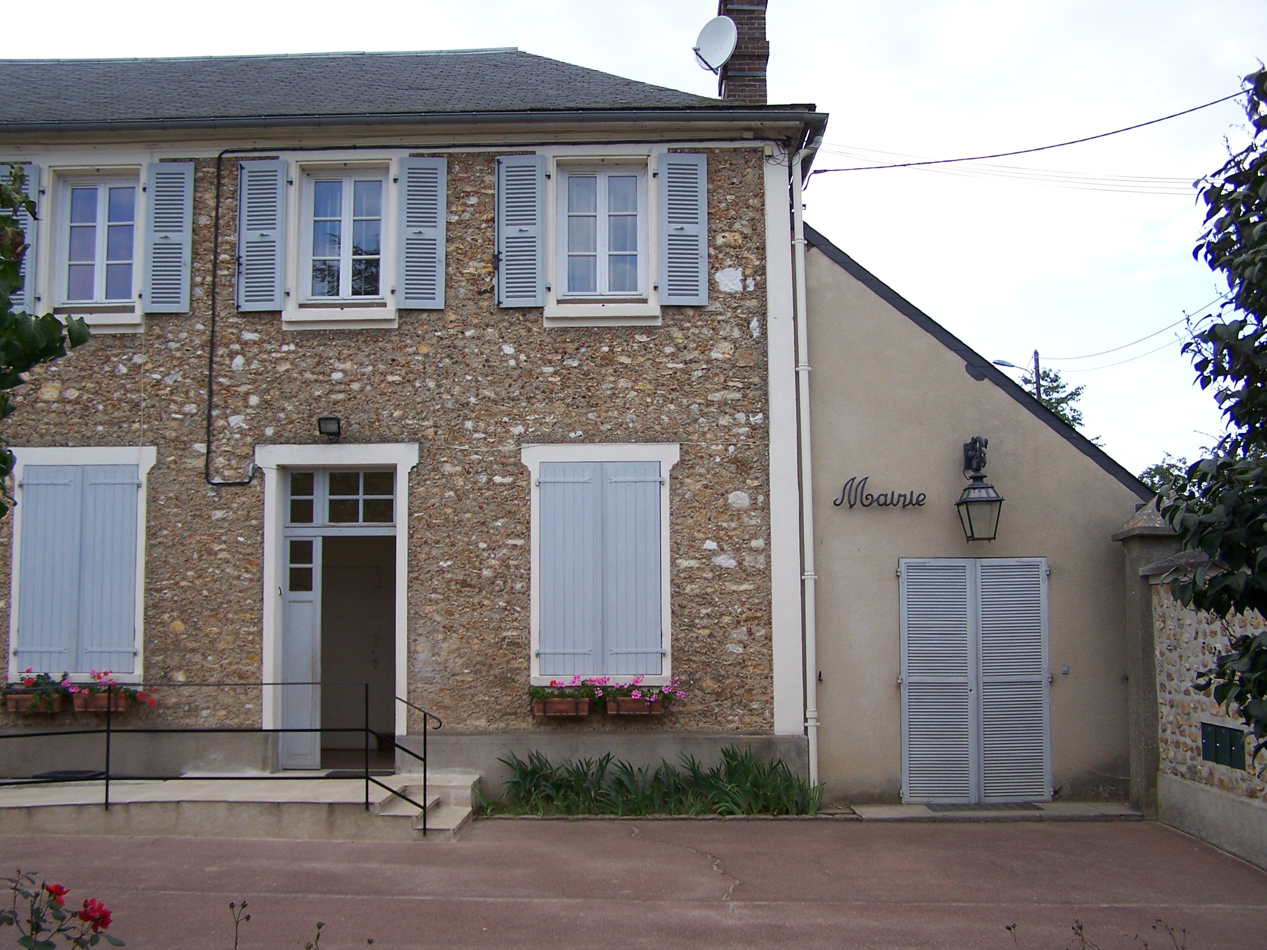 Town hall of Saint-Martin-des-Champs (Yvelines, France)